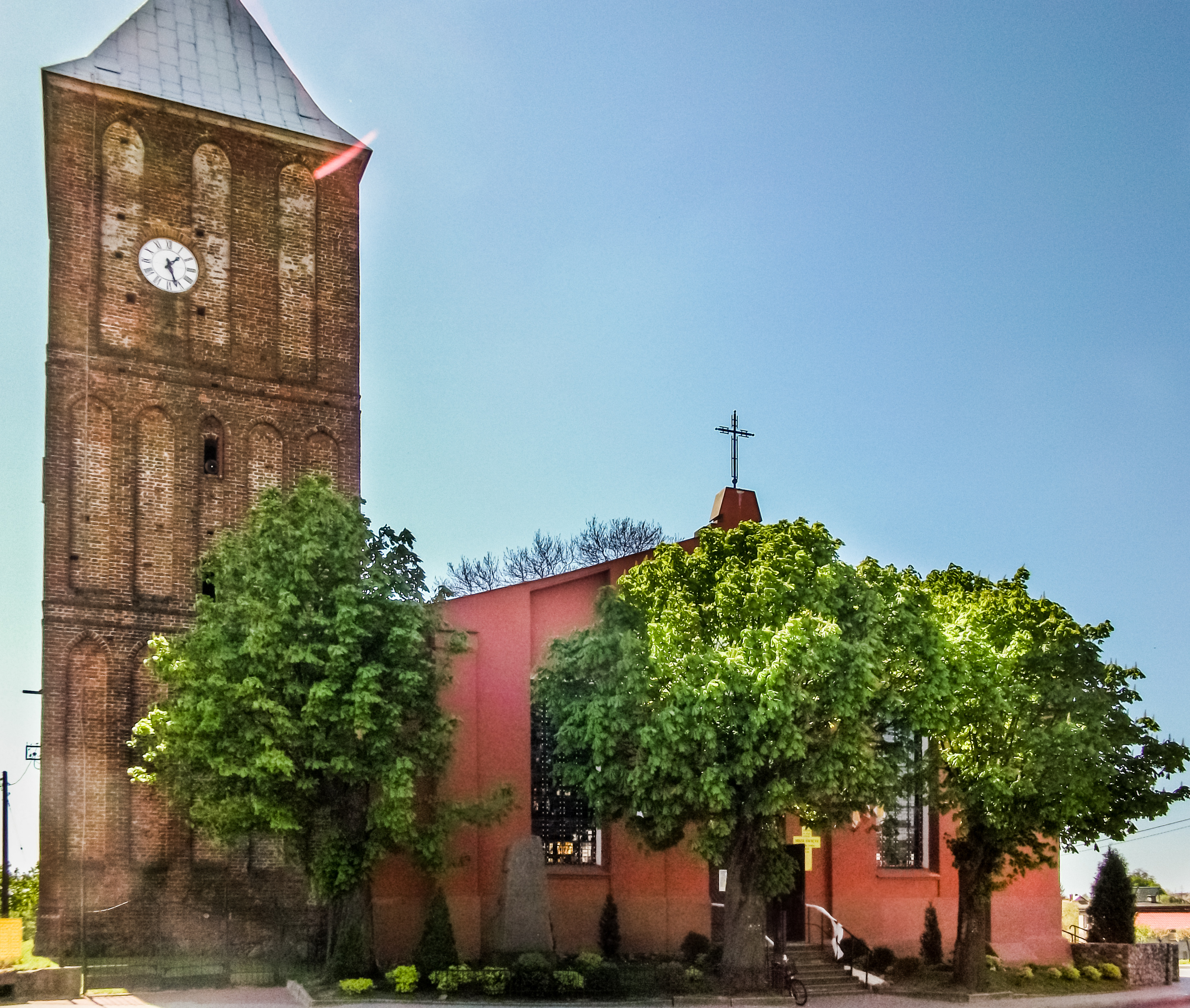 One of the churches in Gardeja - village in Poland